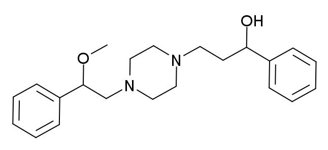 i drew this anyone can use it